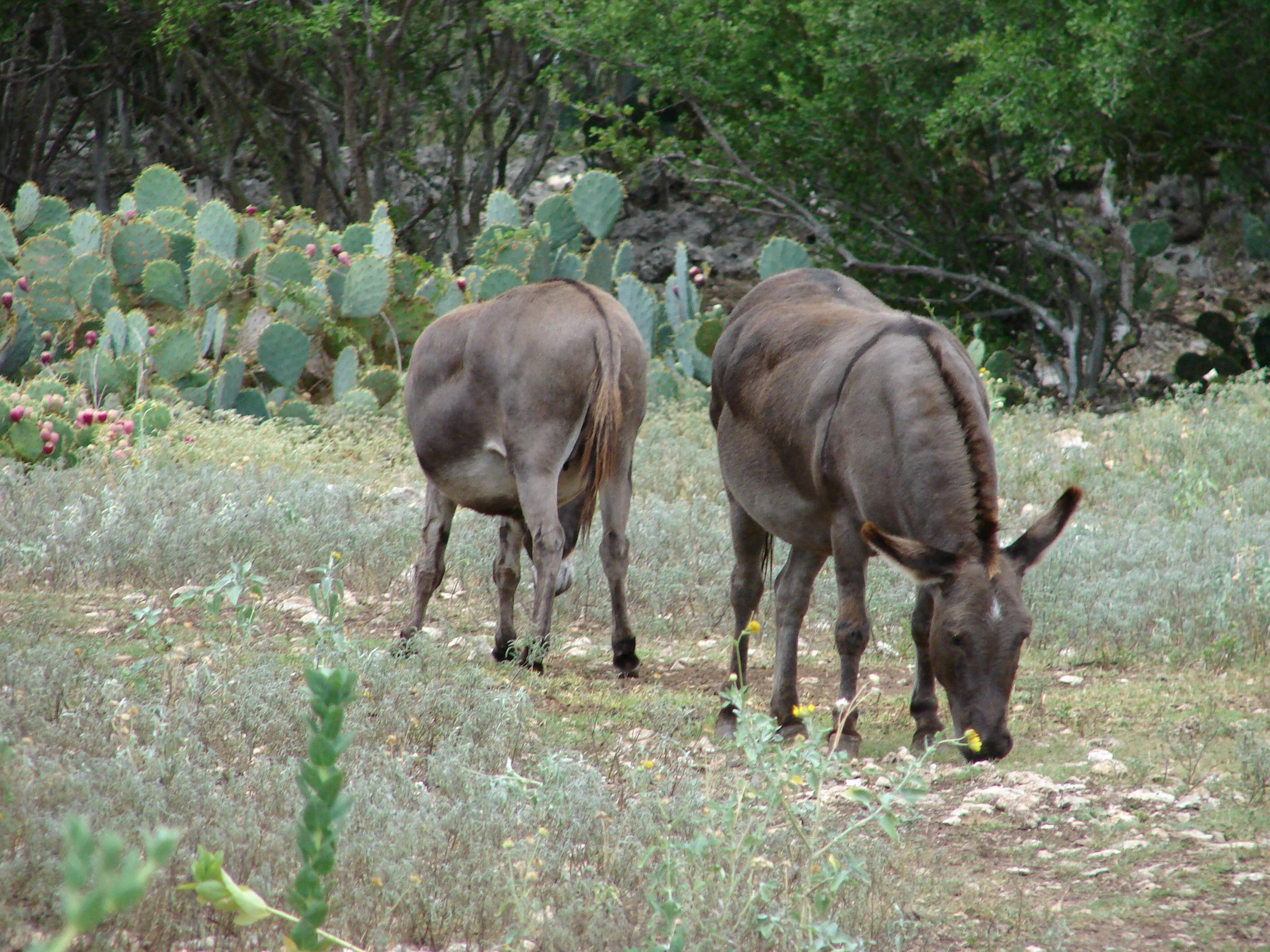 Photo taken by me, July 2006.